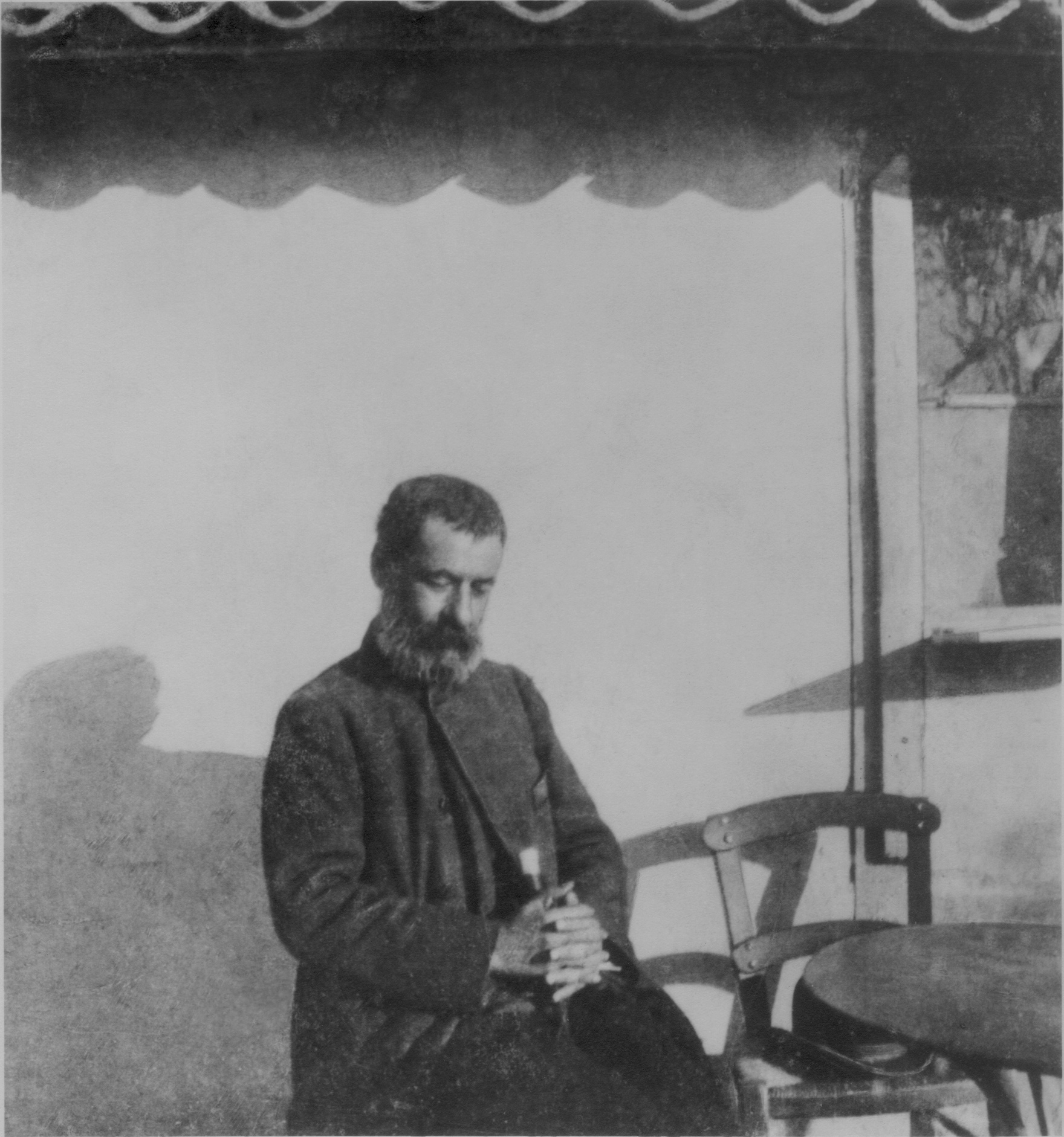 Greek writer Alexandros Papadiamantis photographed in Dexameni (Kolonaki), Athens, Greece.